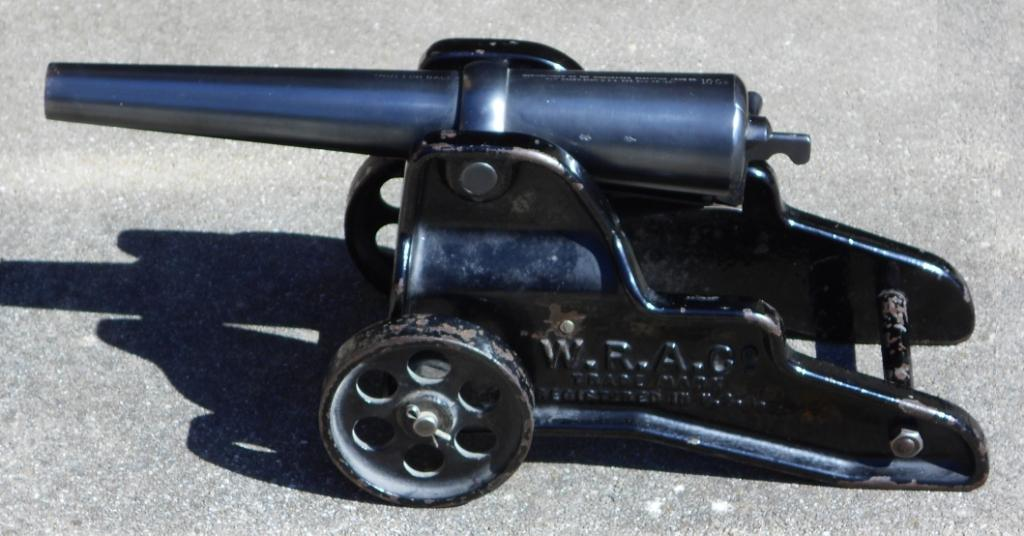 Winchester M 1898 Cannon